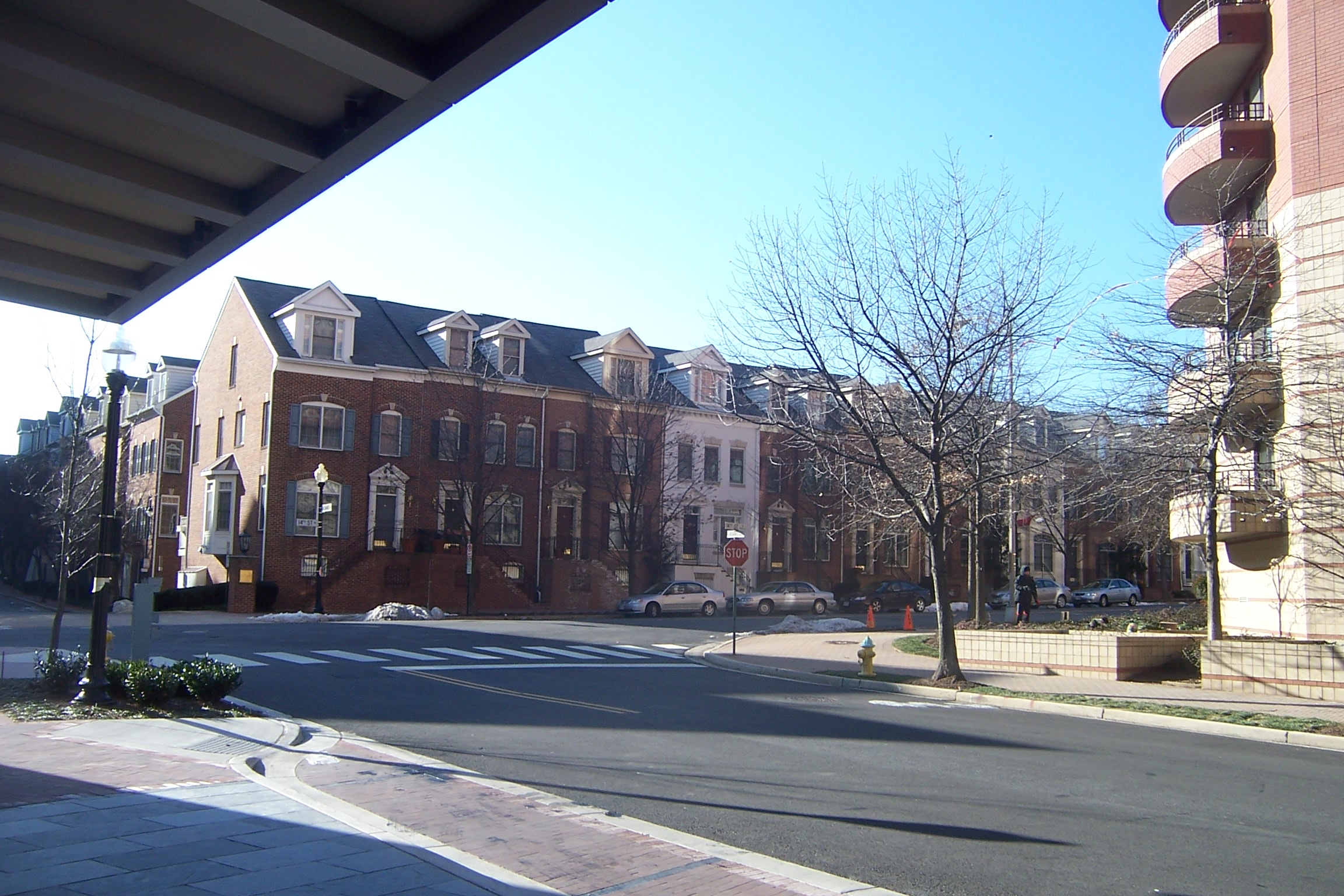 Low-rise residential buildings in Arlington, Virginia.